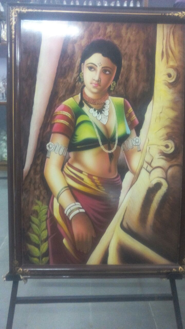 Nirmal Paintings-Village lady